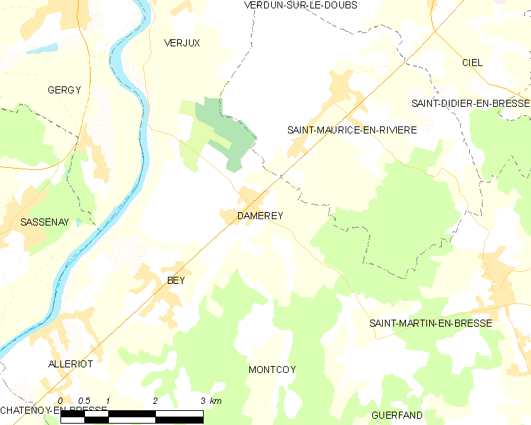 Map of French municipality